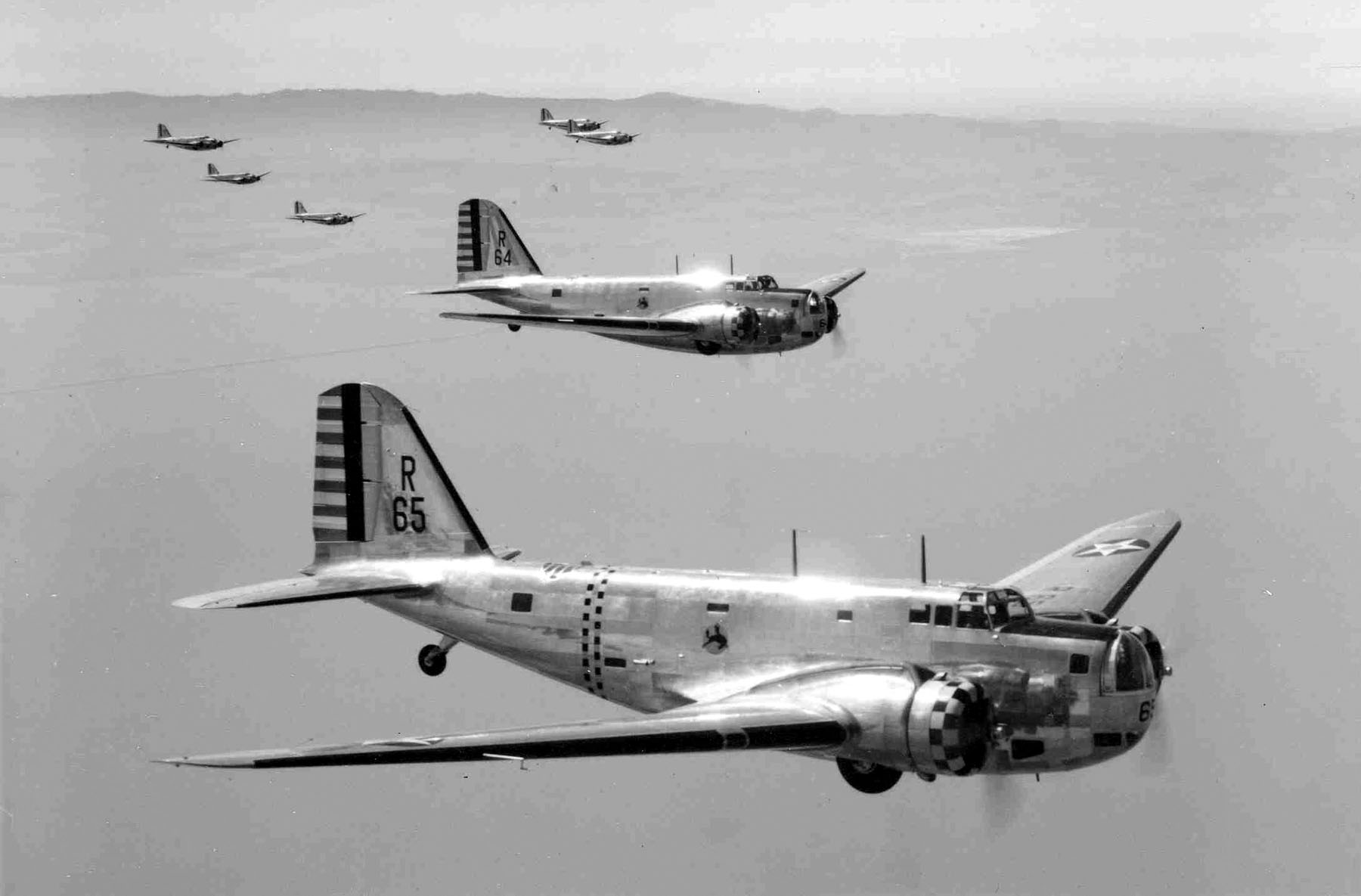 Douglas B-18 of the 88th Reconnaissance Squadron